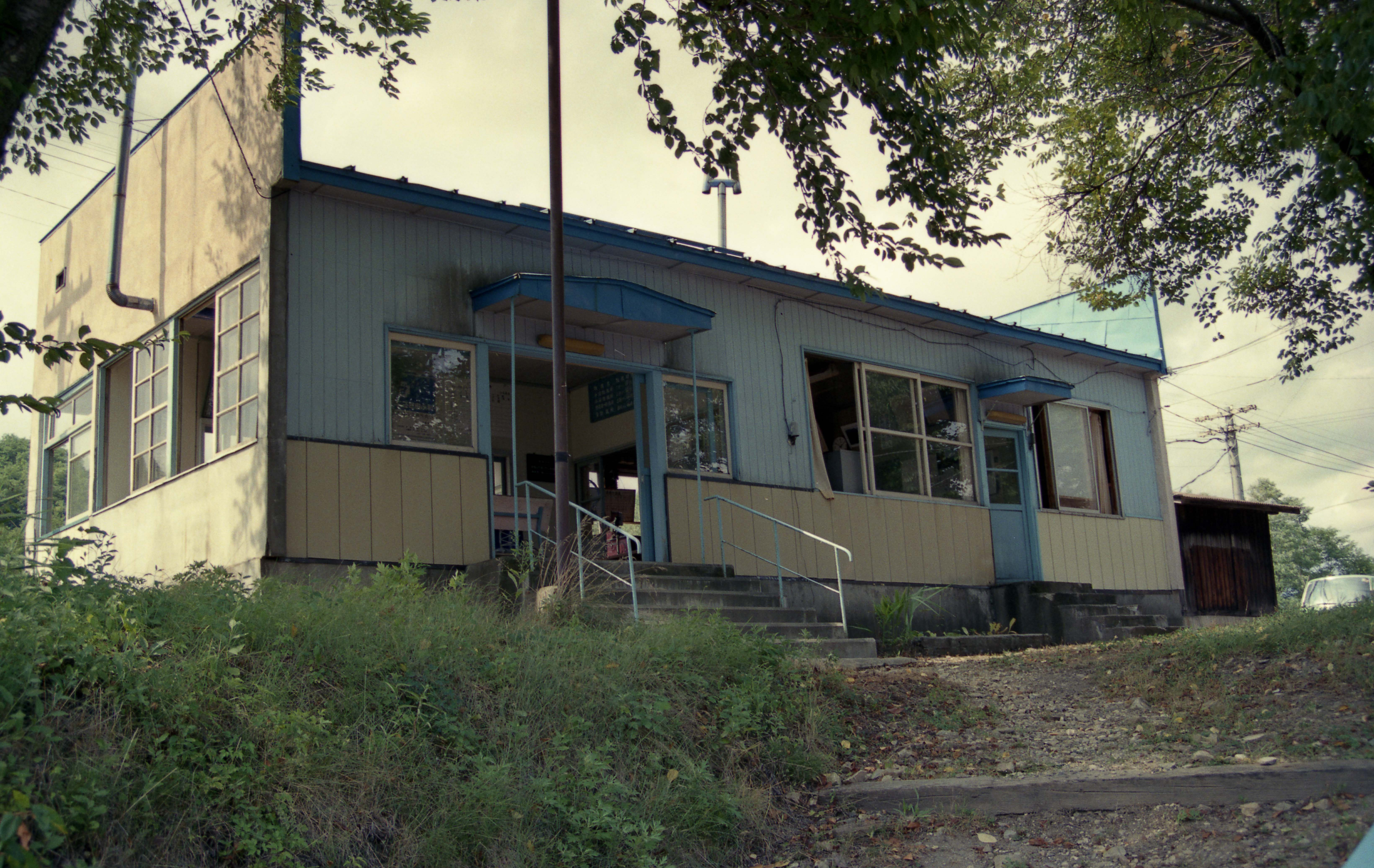 The building of Shigenai Station,Kosaka Railway(before abolished)